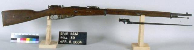 MODEL 1891 MOSIN-NAGANT